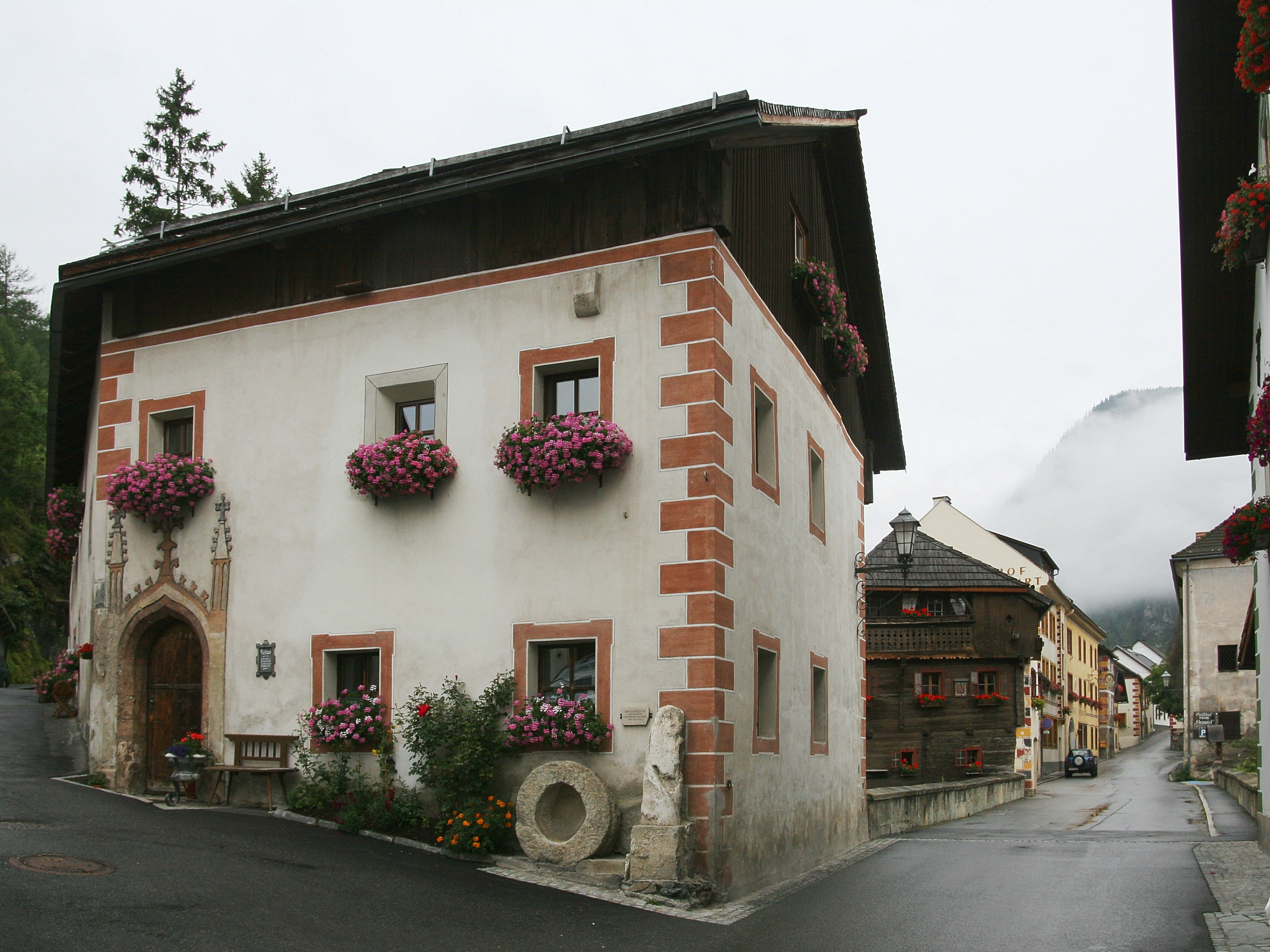 The Putz house in Mauterndorf